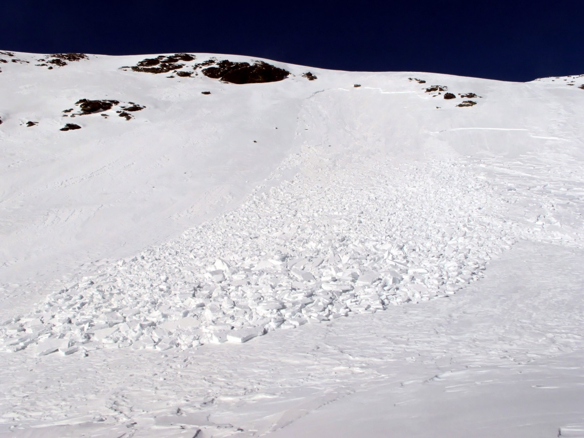 Avalanche